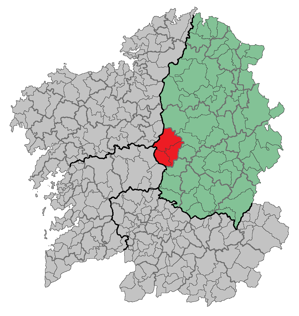 Region of Galicia (Spain)Based in: Image:Location of Betanzos.png Source: Designed by Leoplus. Original picture, designed by Caiser over a work made by Alyssalover.